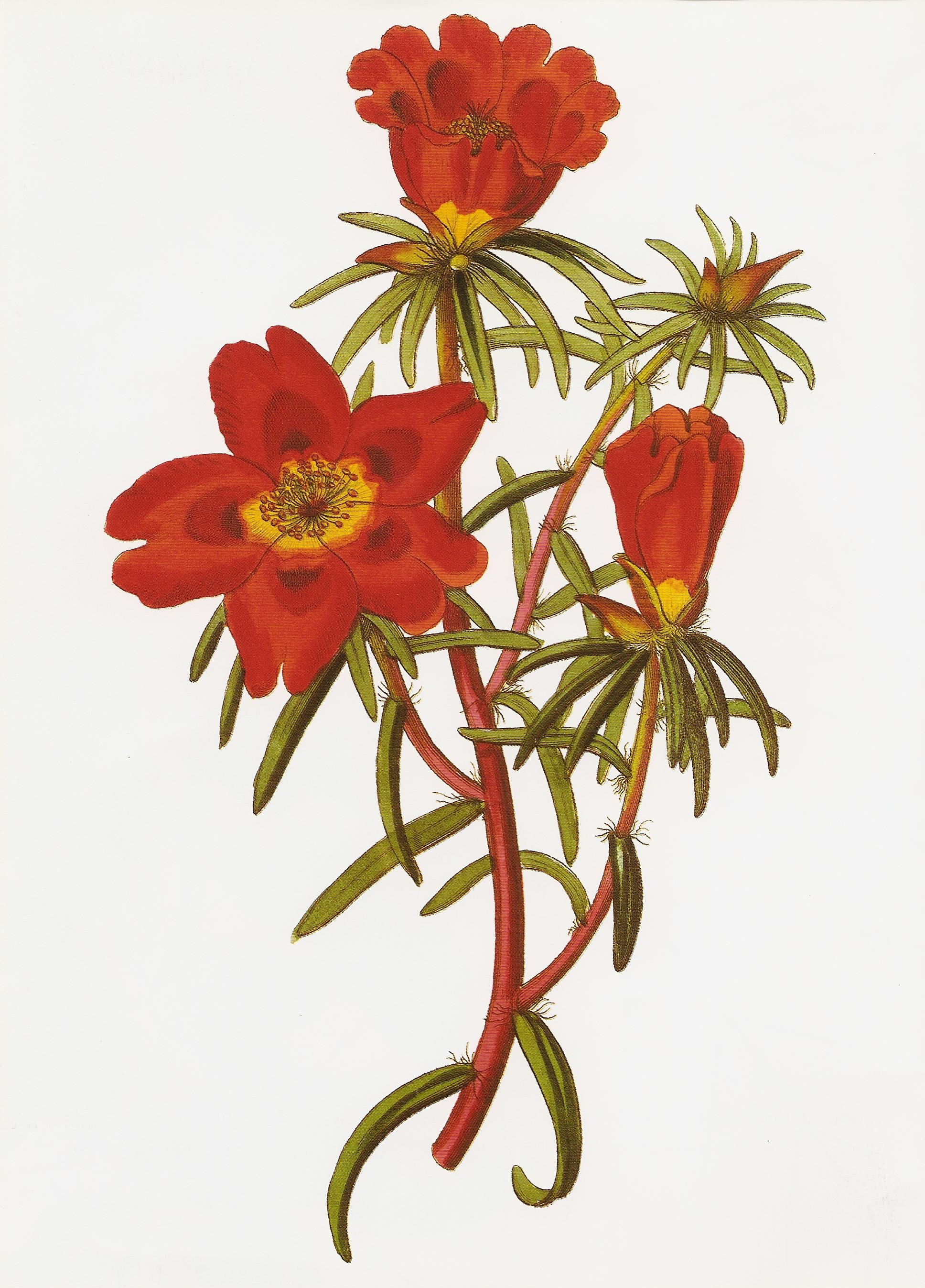 Portucala thellusonii, a hand-coloured engraving after a drawing by Miss S. A. Drake (fl. 1820s-1840s), from the 26th volume of the Botanical Register (1840), edited by John Lindley. This plant was named by John Lindley.